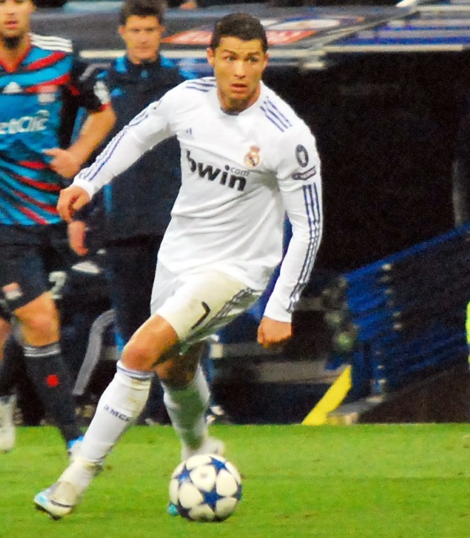 Cristiano Ronaldo in Real Madrid in March, 2011.